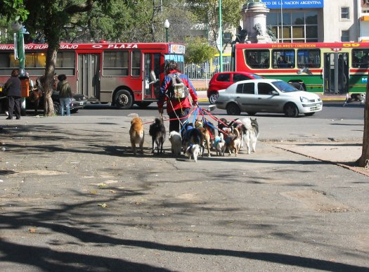 A person providing a dog walking service.